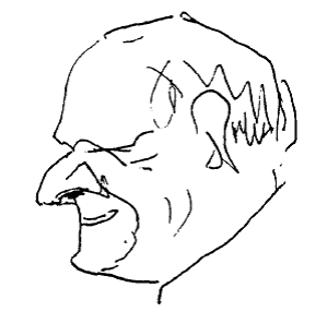 Sketch to Lars Onsager